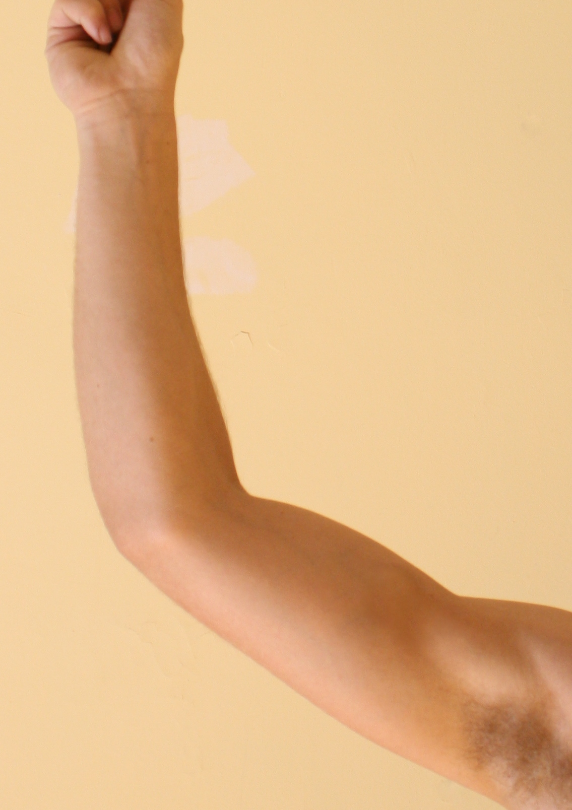 arm